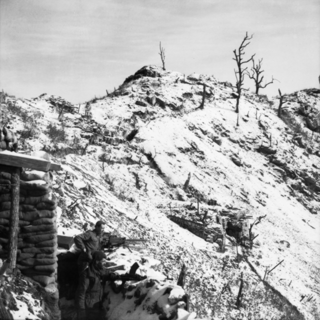 AWM Caption:Korea. 1 January 1953. Two Australian soldiers take a turn of duty watching the Chinese position in the front line. The soldier with the .30 machine gun is 3/3238 Private Ronald James (Ronnie) Tippet, of 6 Platoon, 3rd Battalion, The Royal Australian Regiment. Note the snow covered dugout at right.